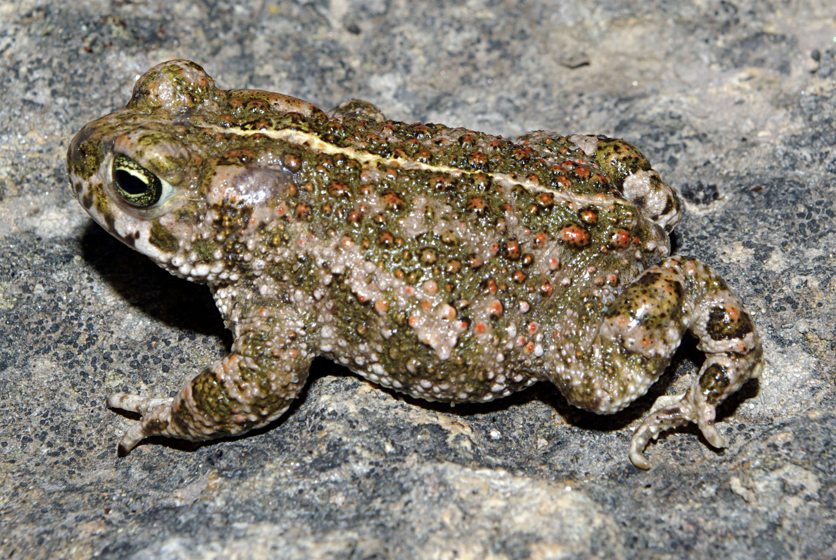 Natterjack Toad Epidalea calamita walking near Badilla, Zamora (Spain)